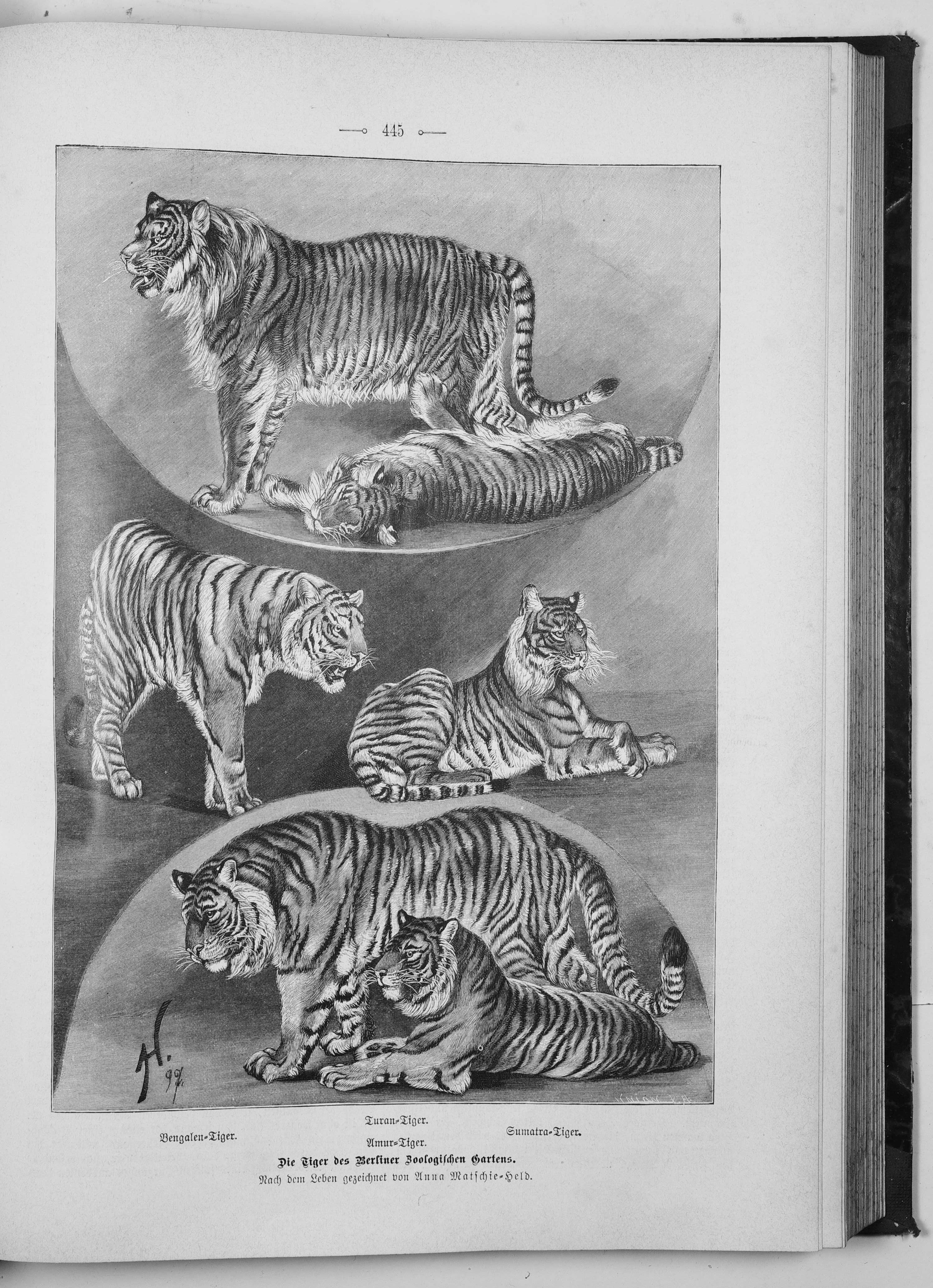 Page 445 from journal Die Gartenlaube for 1897. Extracted image (if any): File:Die Gartenlaube (1897) b 445.jpg - hi res, ~2.5 MB.